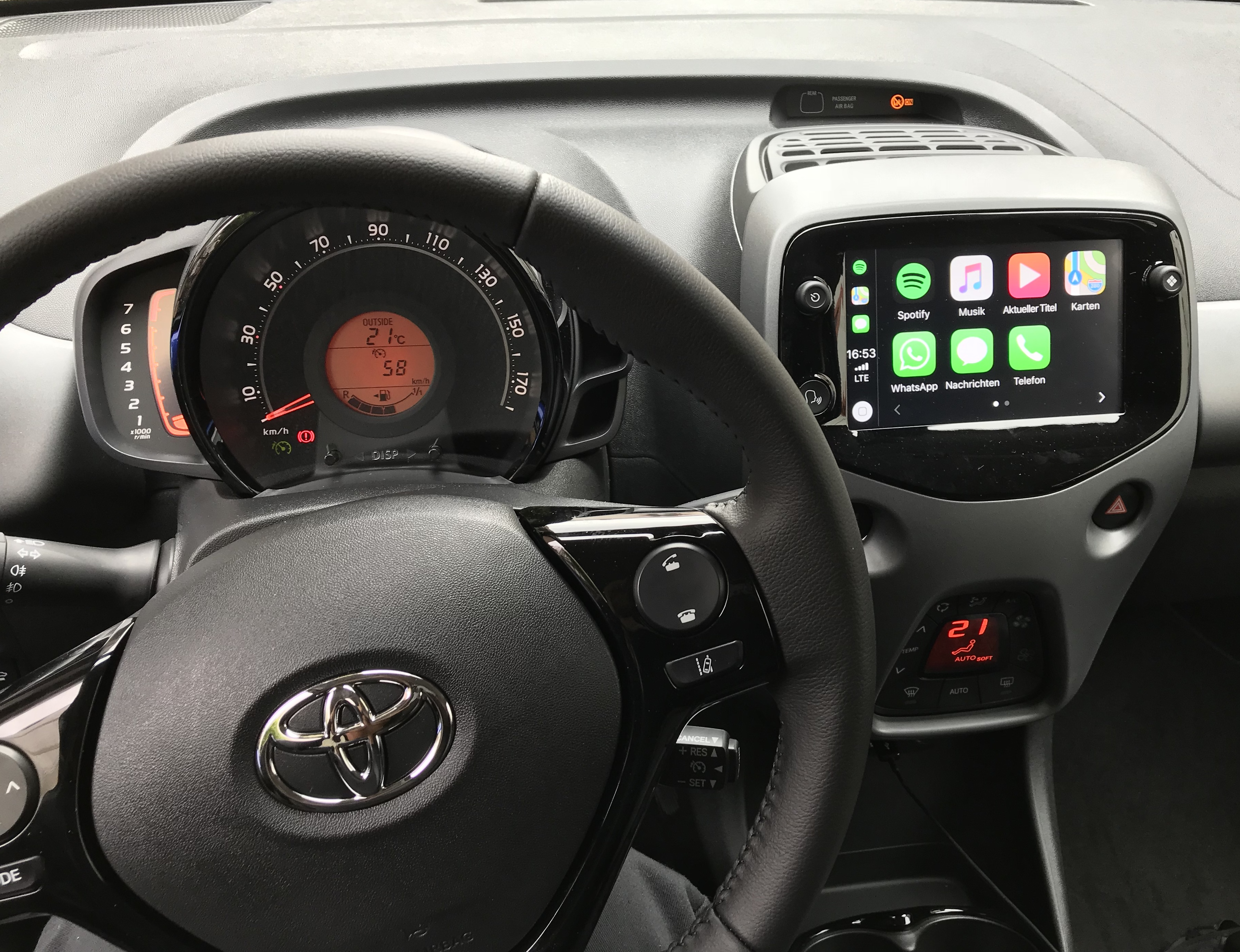 Toyota Aygo Mid 2018 Apple Carplay Integration